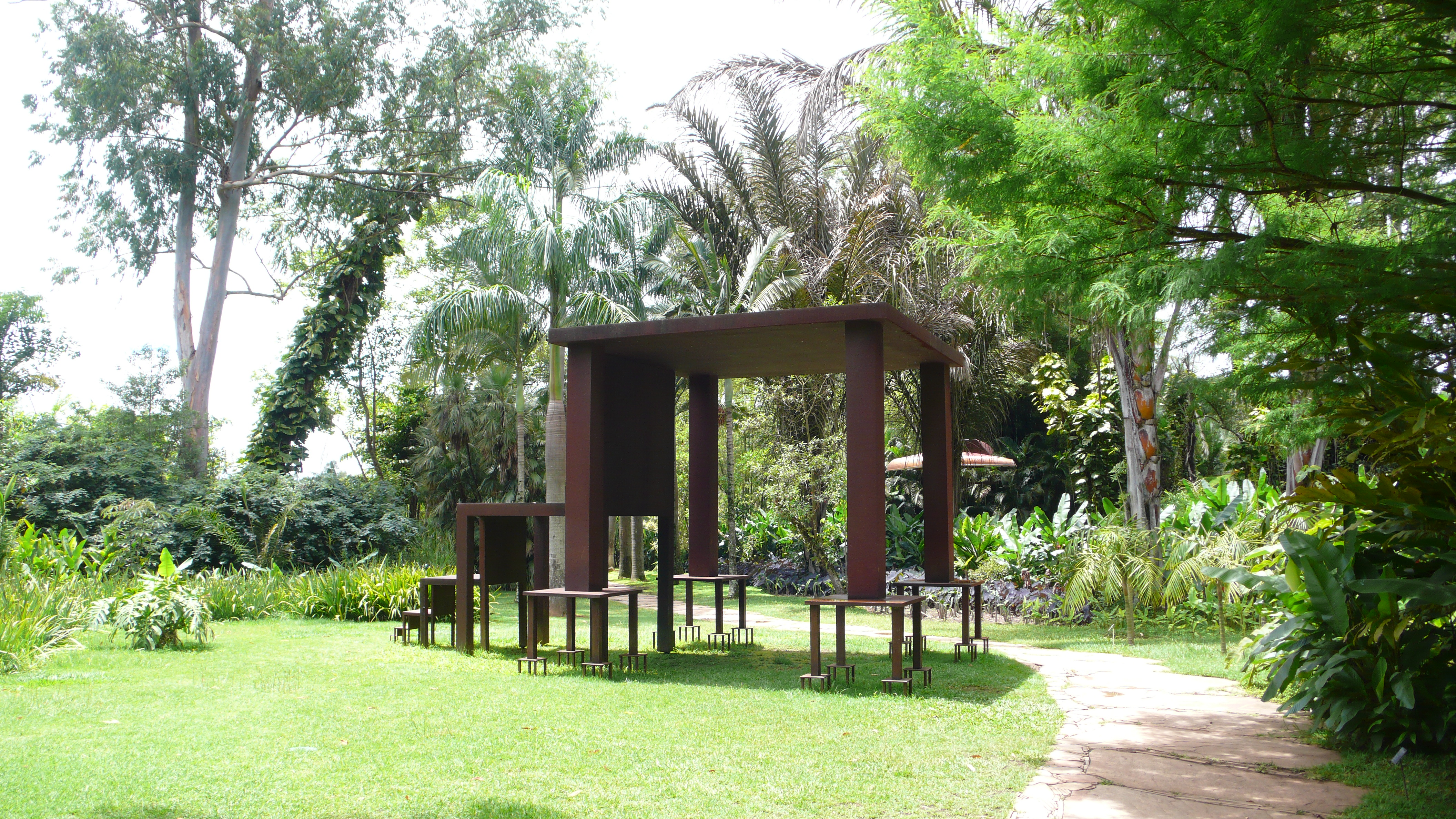 Inmensa by Cildo Meireles at Inhotim in Brumadinho/Brazil